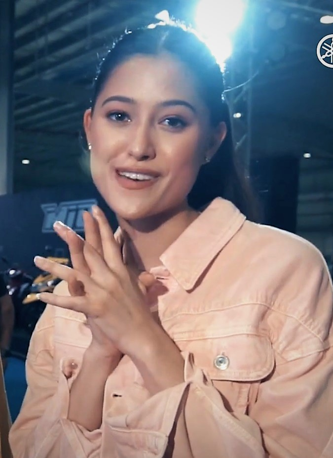 YRide Episode: YAMAHA DAY featuring Yamaha Mio Ambassador Maureen Wroblewitz for the Yamaha Mio i125 YamahaDay #YamahaDayPH